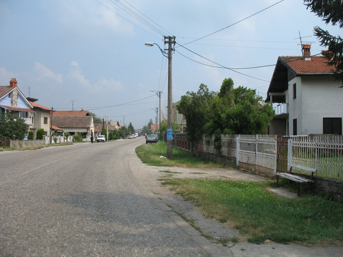 Majilovac near Veliko Gradište, Serbia.